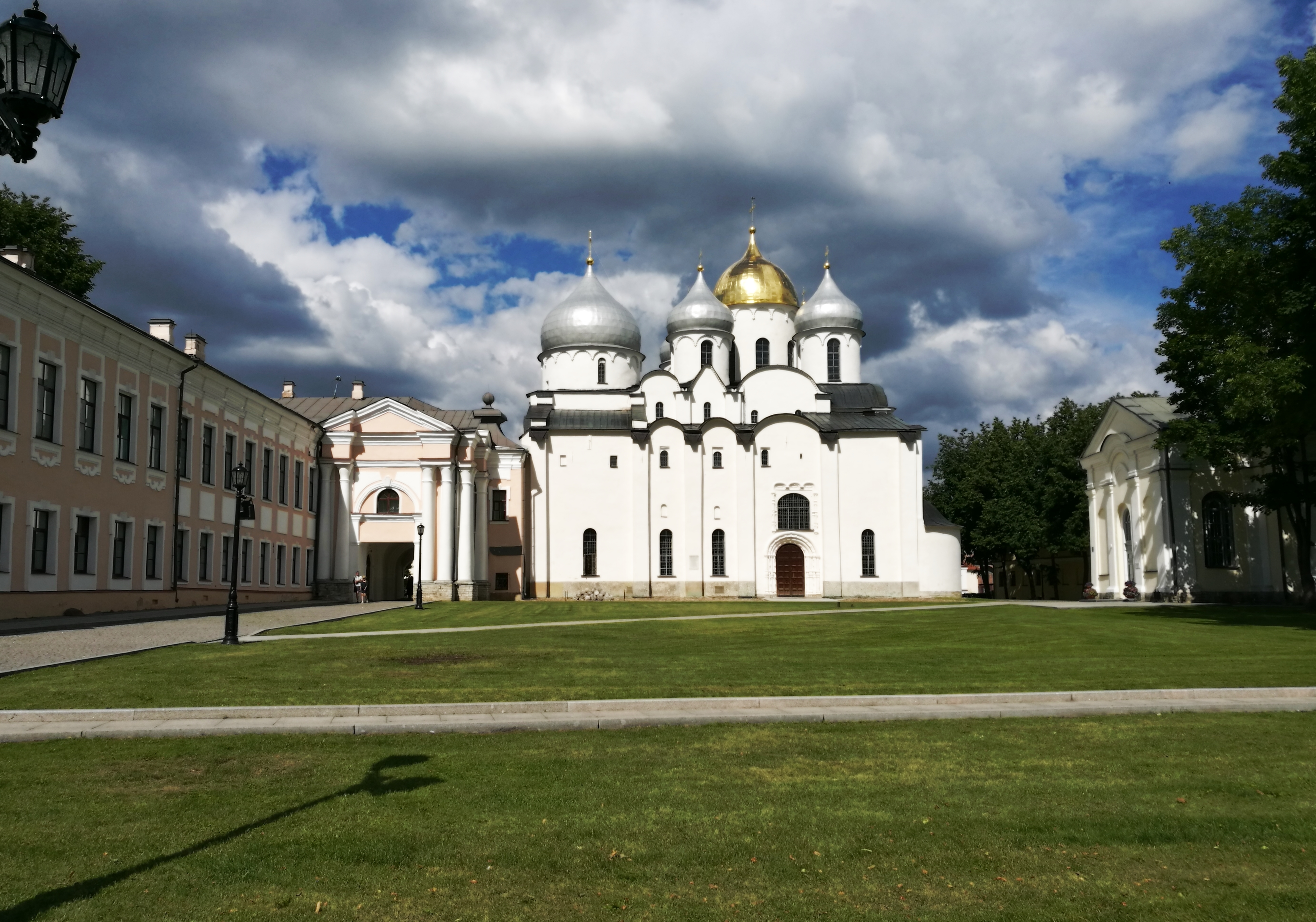 Front view.